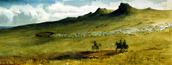 'Mount William, Falkland Islands, May 1849'.